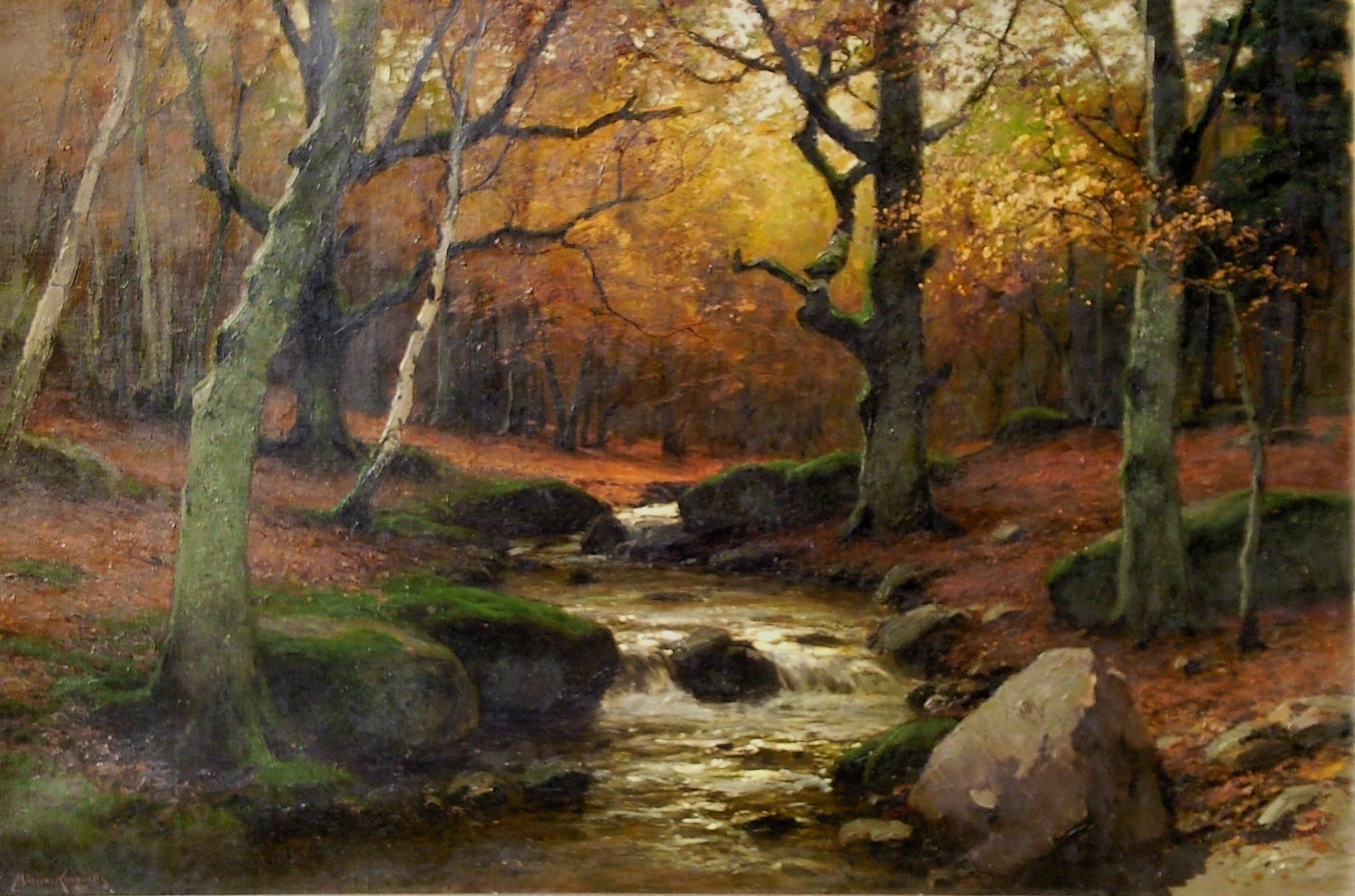 Konrad Alexander Müller-Kurzwelly: Stream in the woods, oil on canvas, 100 x 150 cm